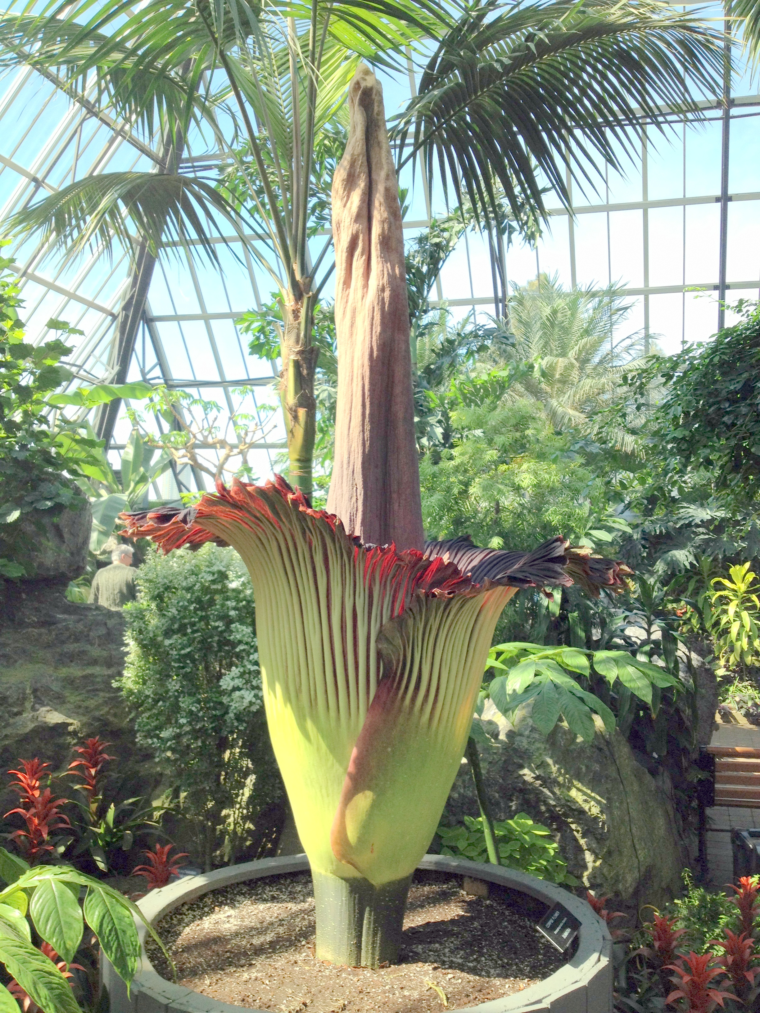 Amorphophallus titanum in bloom at the Muttart Conservatory, Edmonton April 22, 2013. Also known as "Putrella".